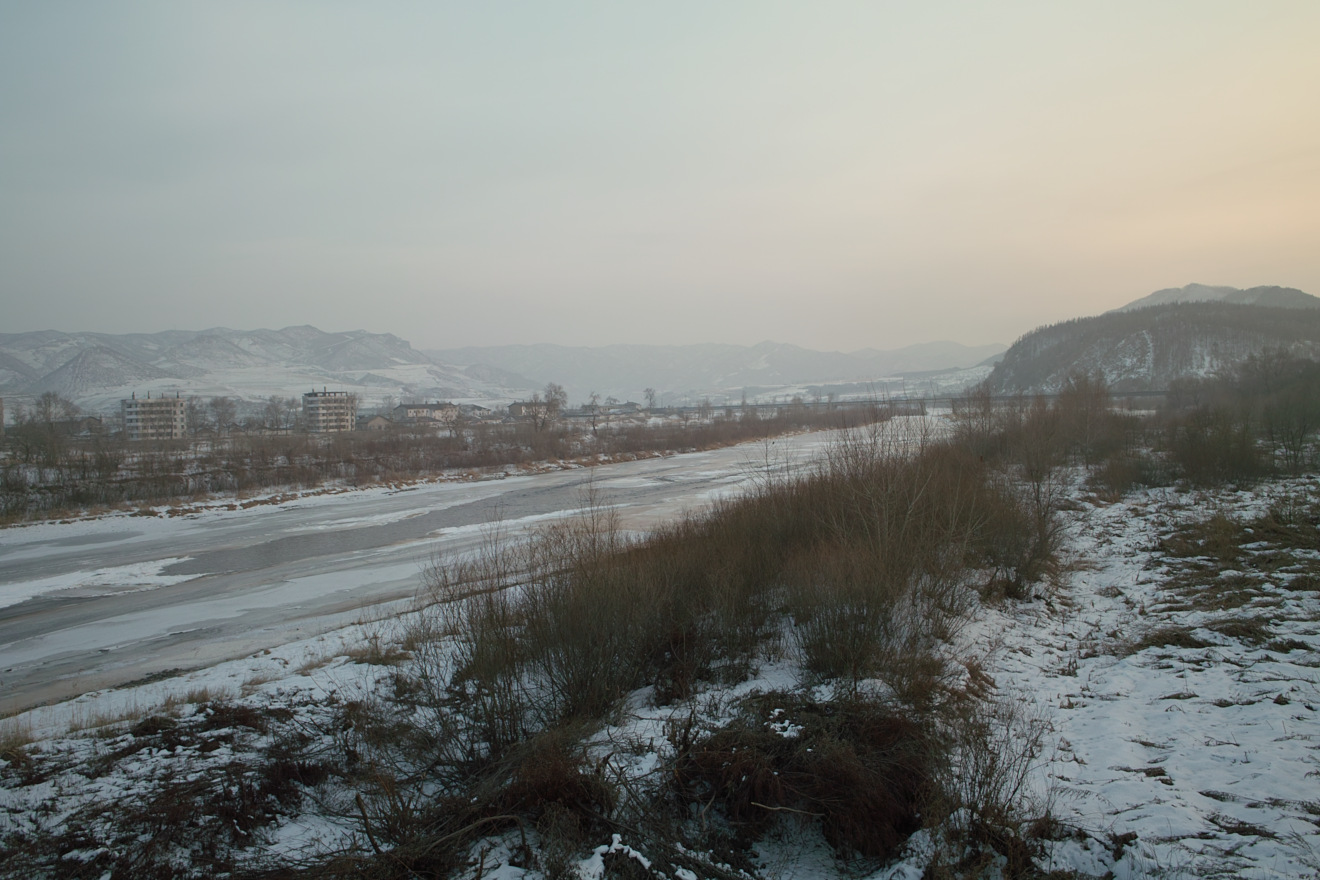 The Tumen River, at the border between North Korea and China. Picture taken from the Chinese side of the Tumen River at Tumen City; the city of Namyang, North Korea is on the other side of the river.